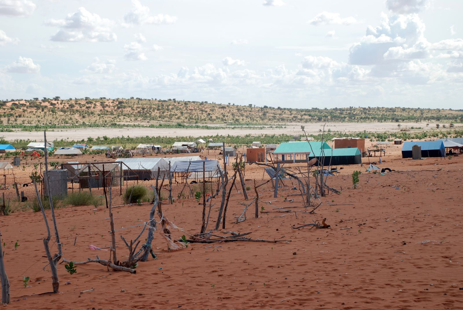 Boutilimit, Mauritania, oued southwest of town